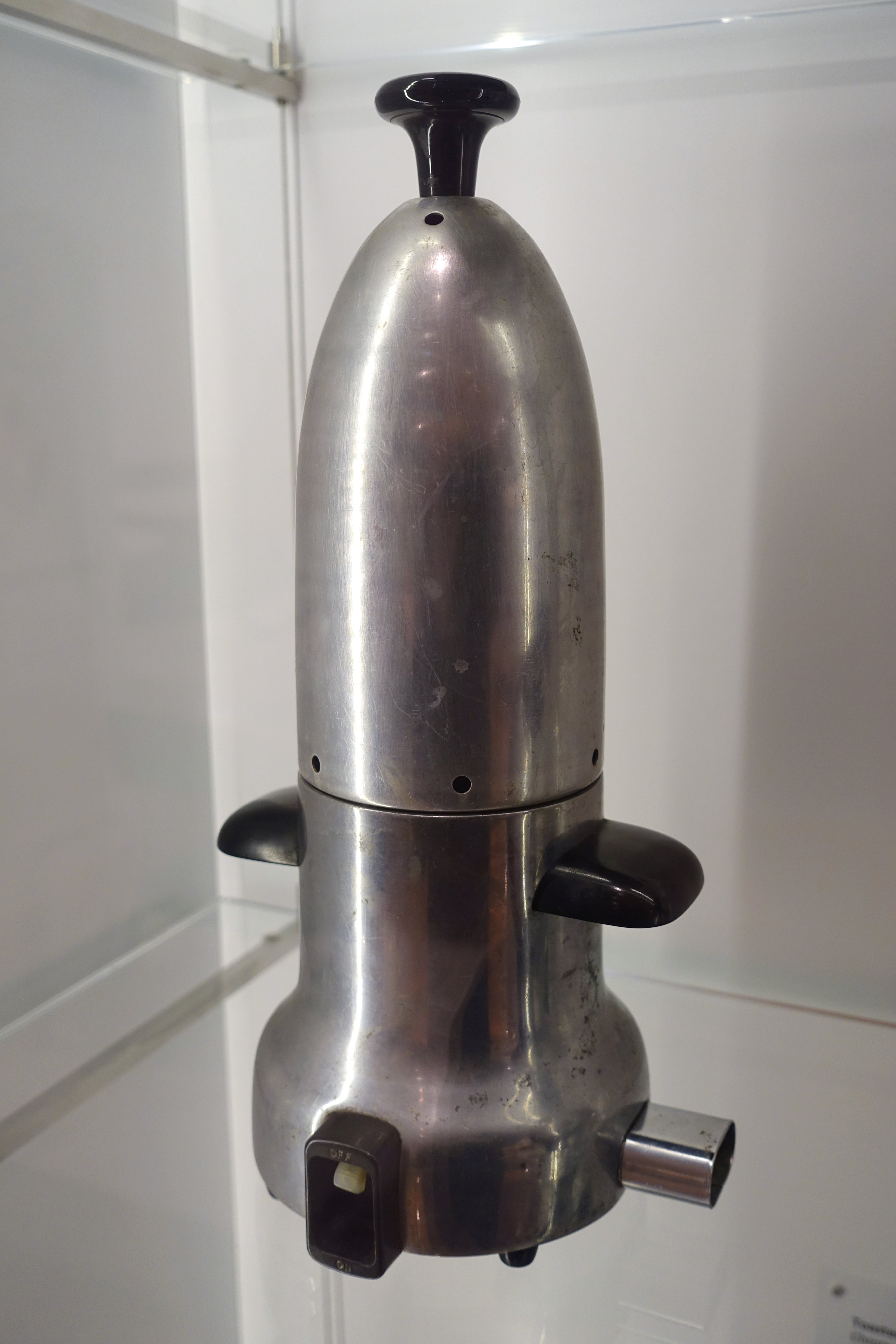 Exhibit in the Museum für Angewandte Kunst Köln - Cologne, Germany. As a utilitarian object, this work is NOT subject to US copyright laws. Instead, it is covered by a U.S. design patent, which covers the ornamental aspects of utilitarian objects, and lasts fifteen years from the date of grant if filed on or after May 13, 2015 (or fourteen years if filed before May 13, 2015). See Industrial design right. Hence this work is now in the public domain.